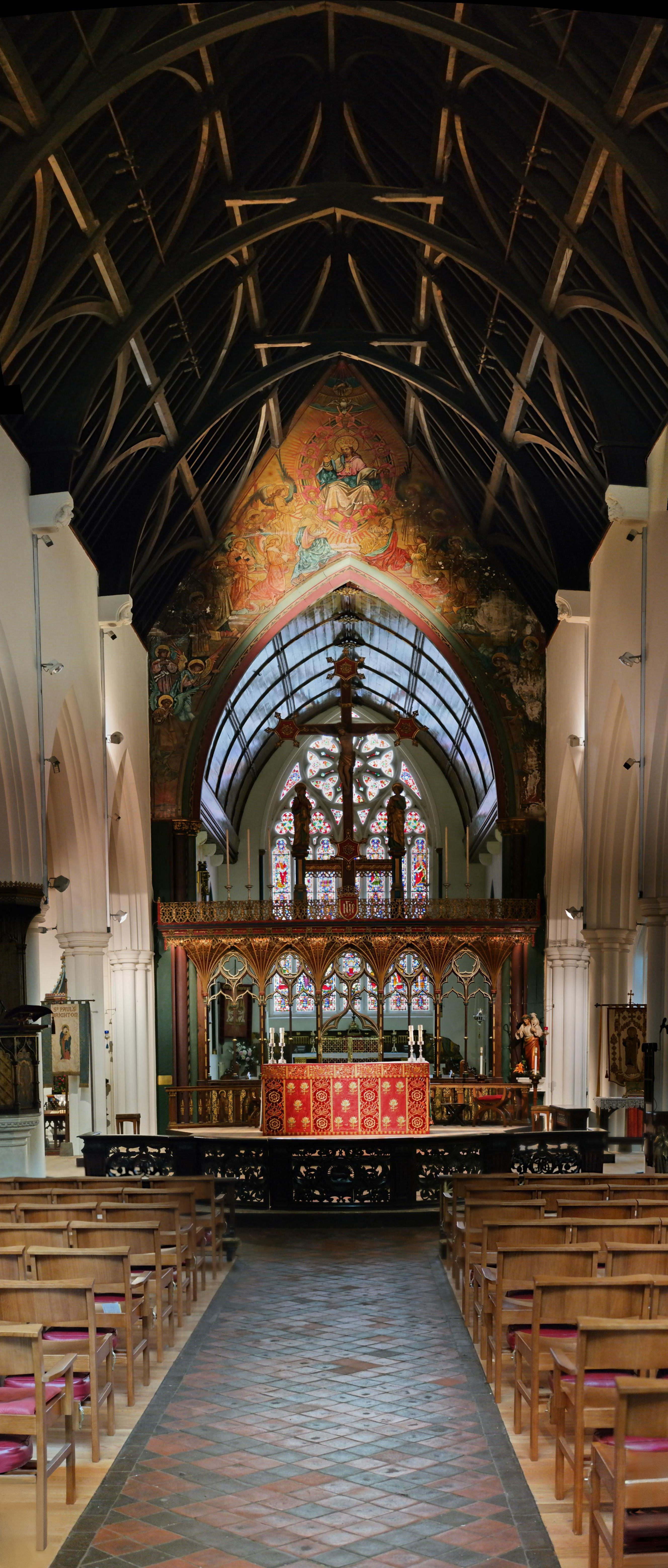 Interior of St Paul's Church, Brighton, showing stained glass and vaulting. Wikidata has entry Q17549782 with data related to this building.